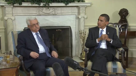 Barack Obama meets with Mahmoud Abbas in the Oval Office.